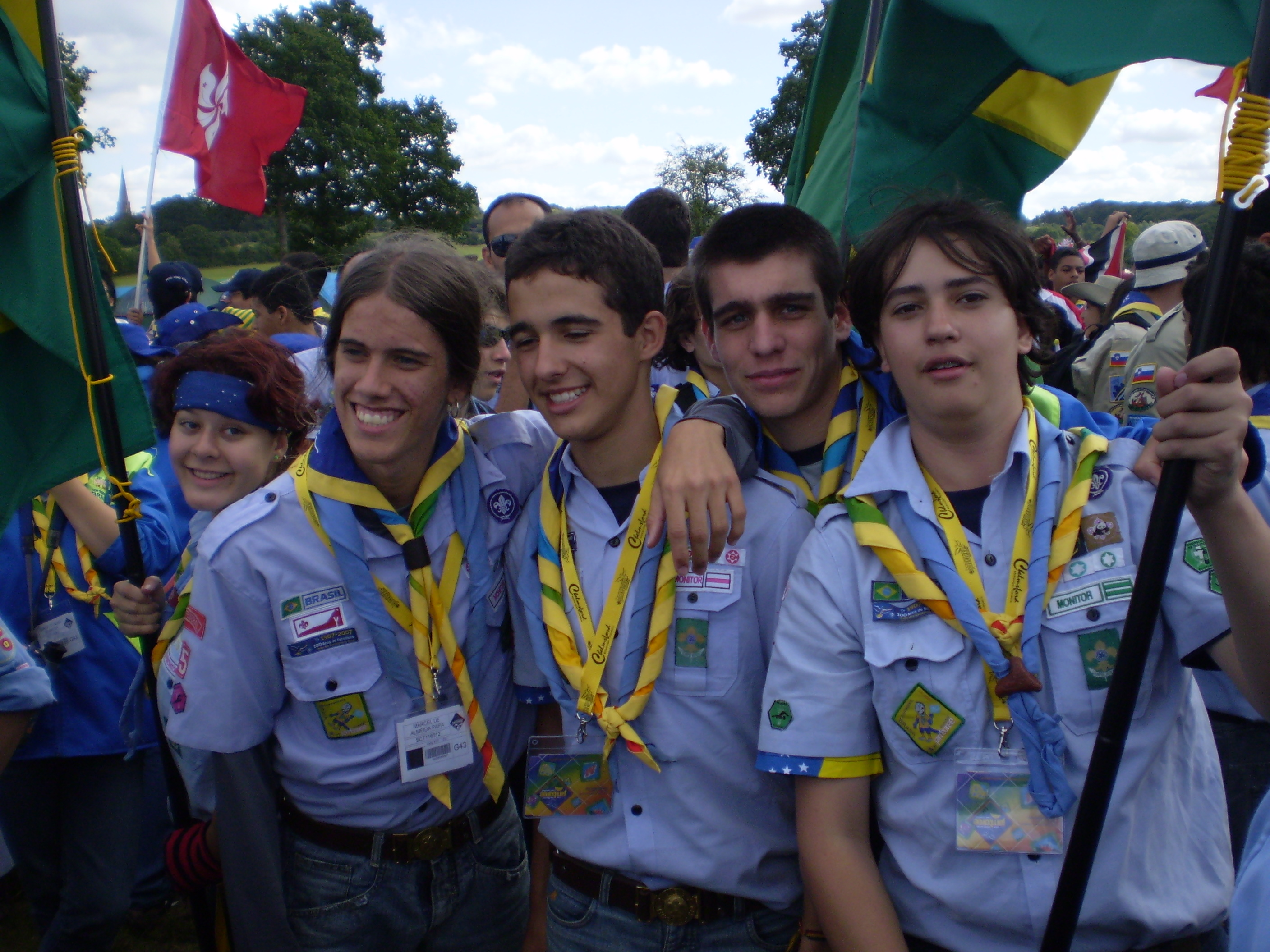 Scouts from Brazil at the 21st World Scout Jamboree